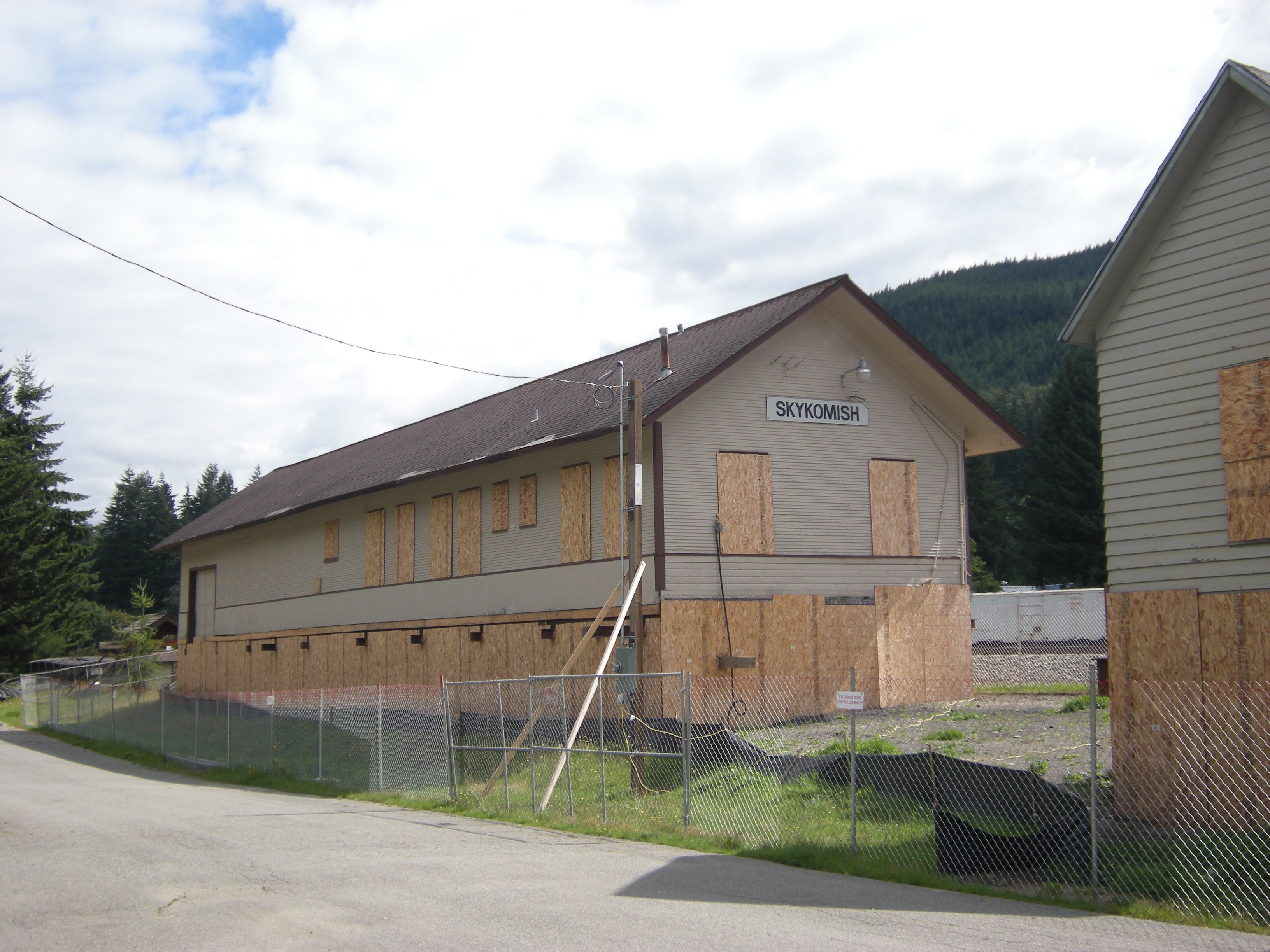 Great Northern Railway Depot, Skykomish, Washington. The station has been temporarily moved from its historic location (and mothballed) for environmental cleanup. The depot is listed on the National Register of Historic Places.